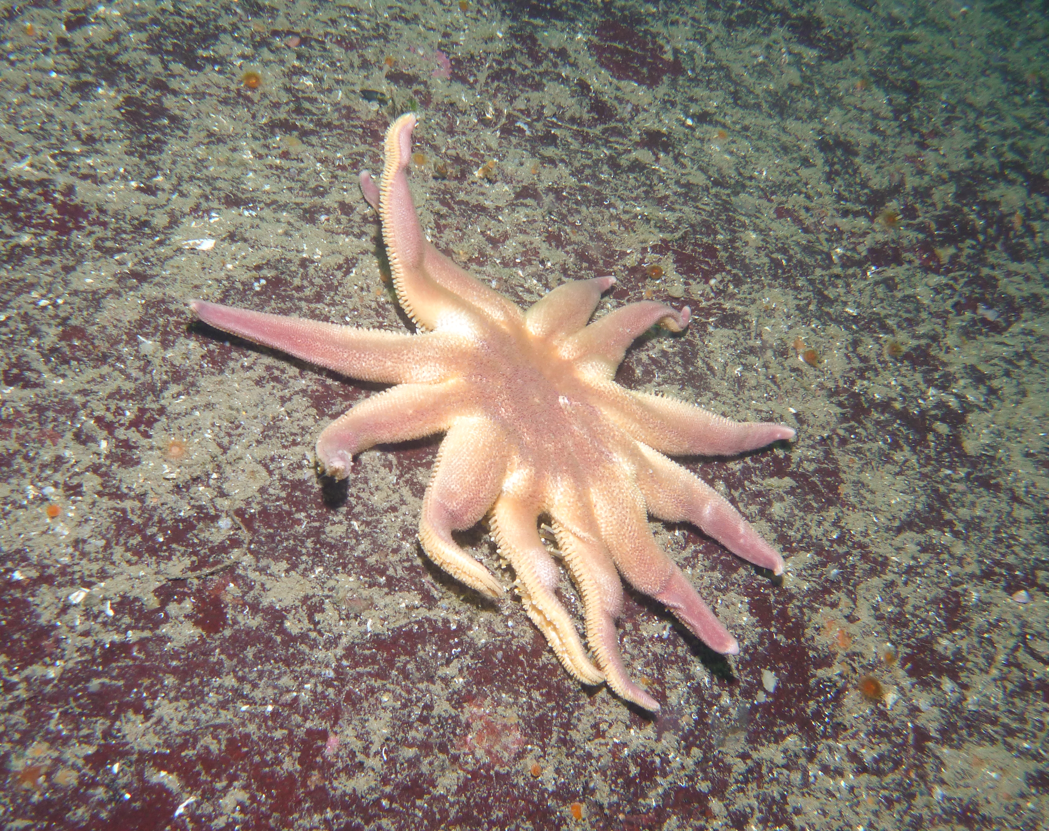 Apparently-moribund Solaster dawsoni. Kelvin Grove, September 2, 2013